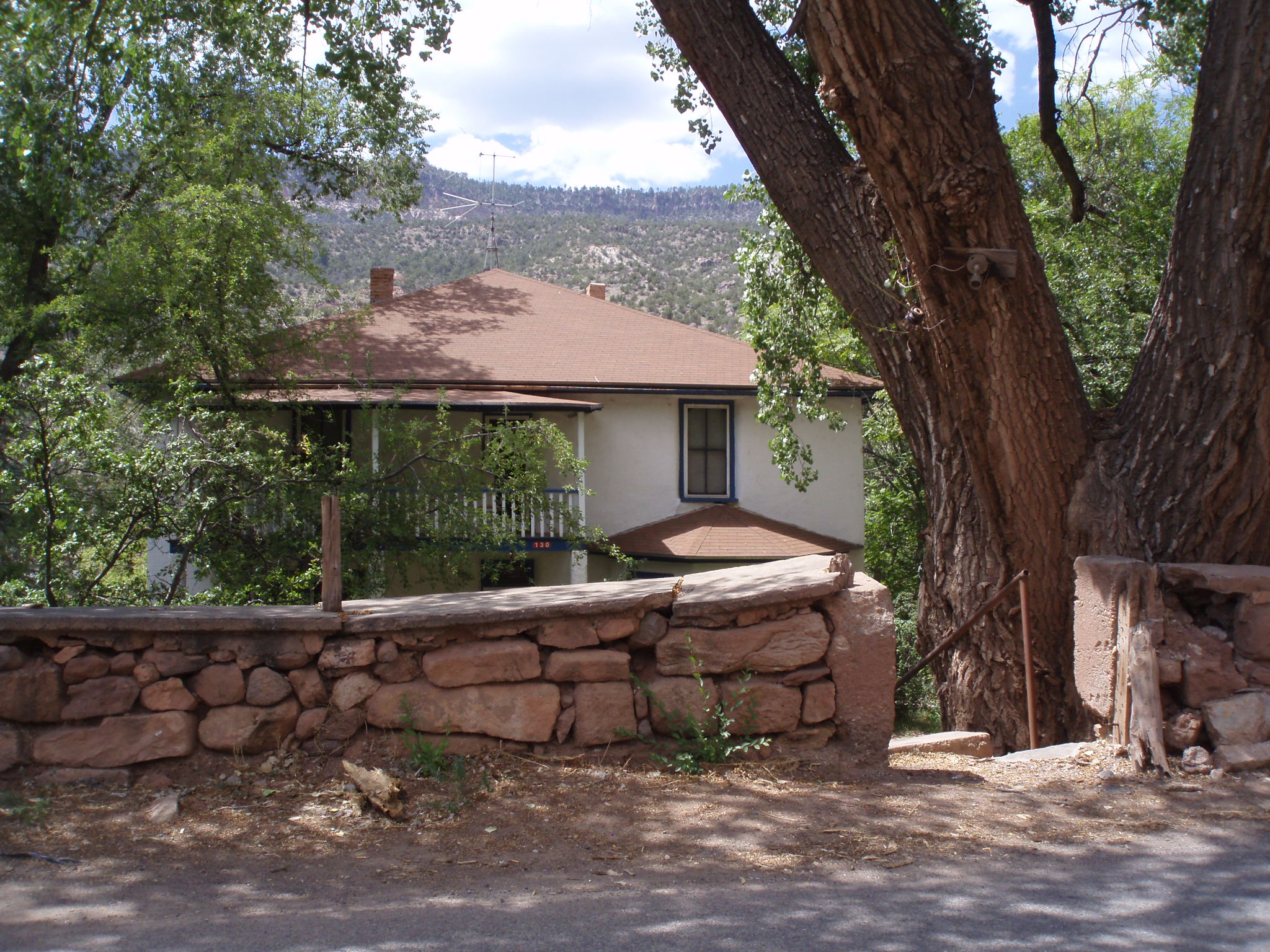 I always loved this house with its stone wall, and the cottonwood trees. When going north on this road, the houses and the left side are below the road, since they are on a slope that goes down to the Jemez River. On the east side is basically cliffs with some areas wide enough for houses or stores.